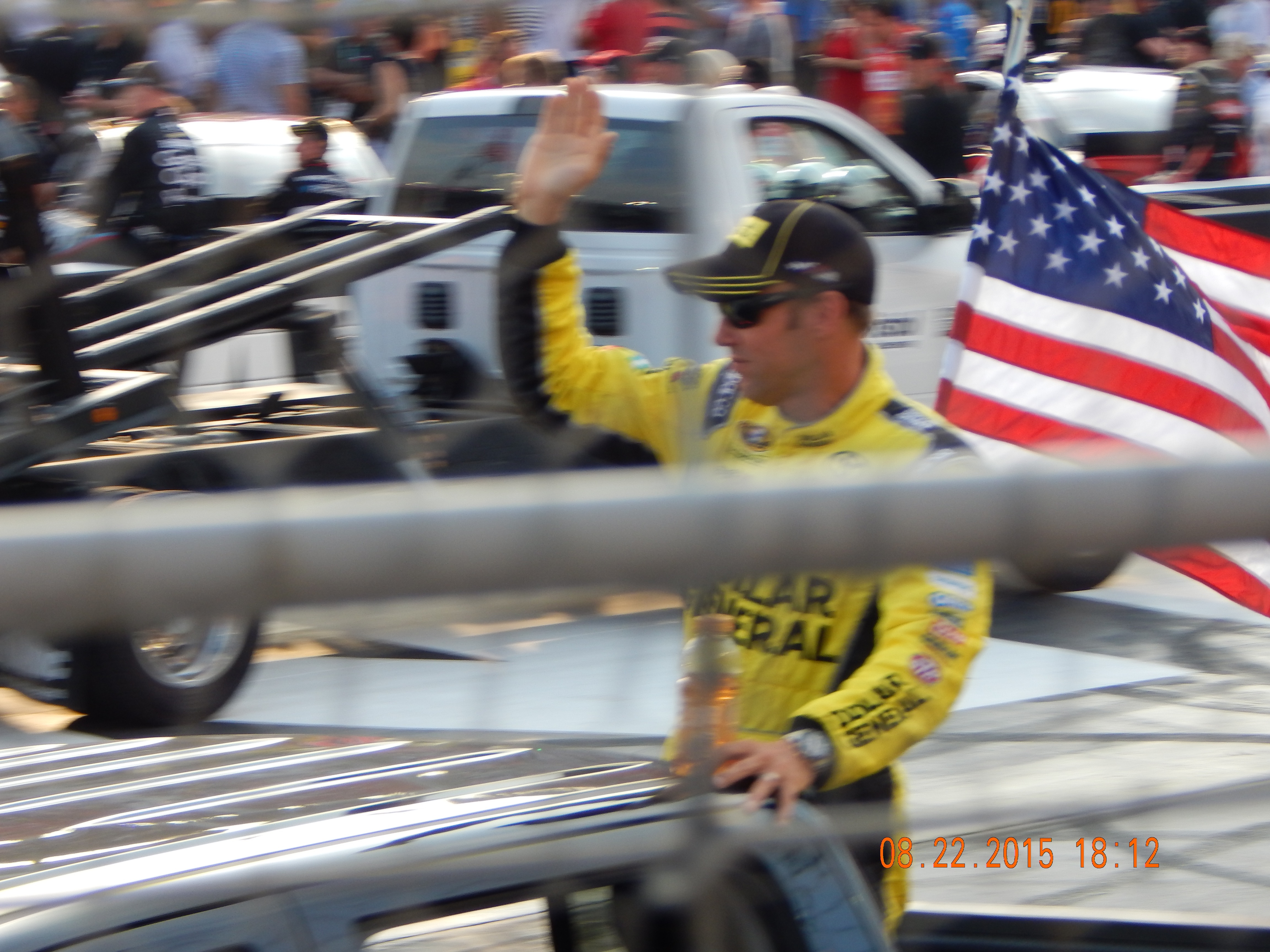 Matt Kenseth being introduced at Bristol Motor Speedway for the Irwin Tools Night Race.